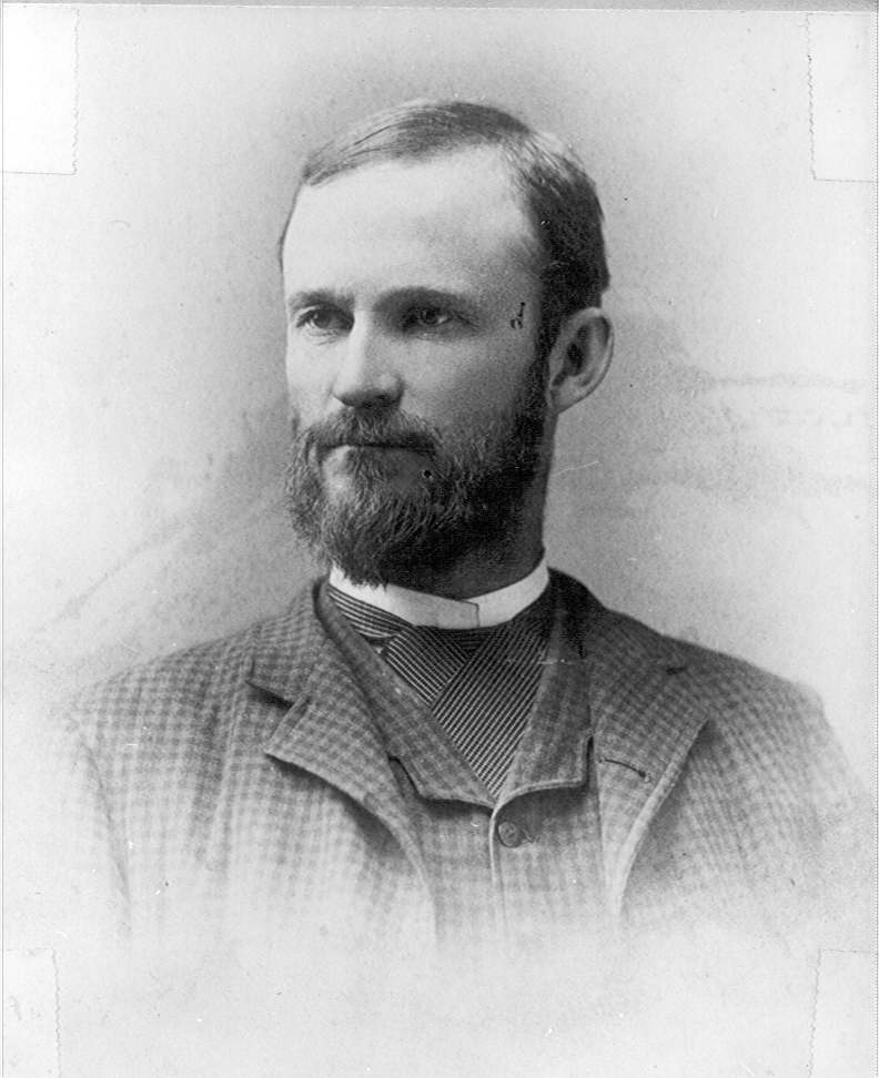 Portrait of John Moses Browning, (1855-1926)